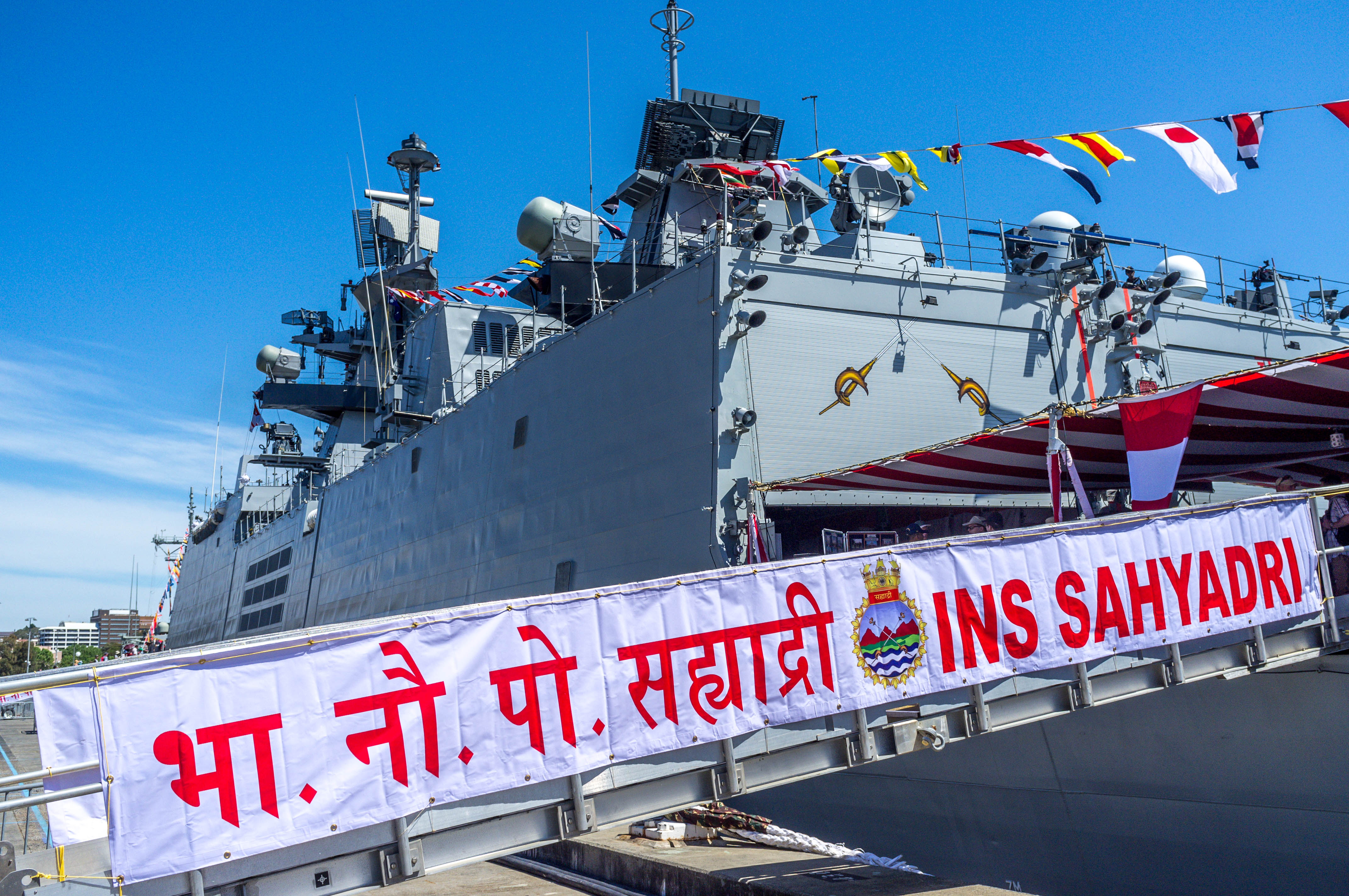 INS Sahyadri (F49) Open Day